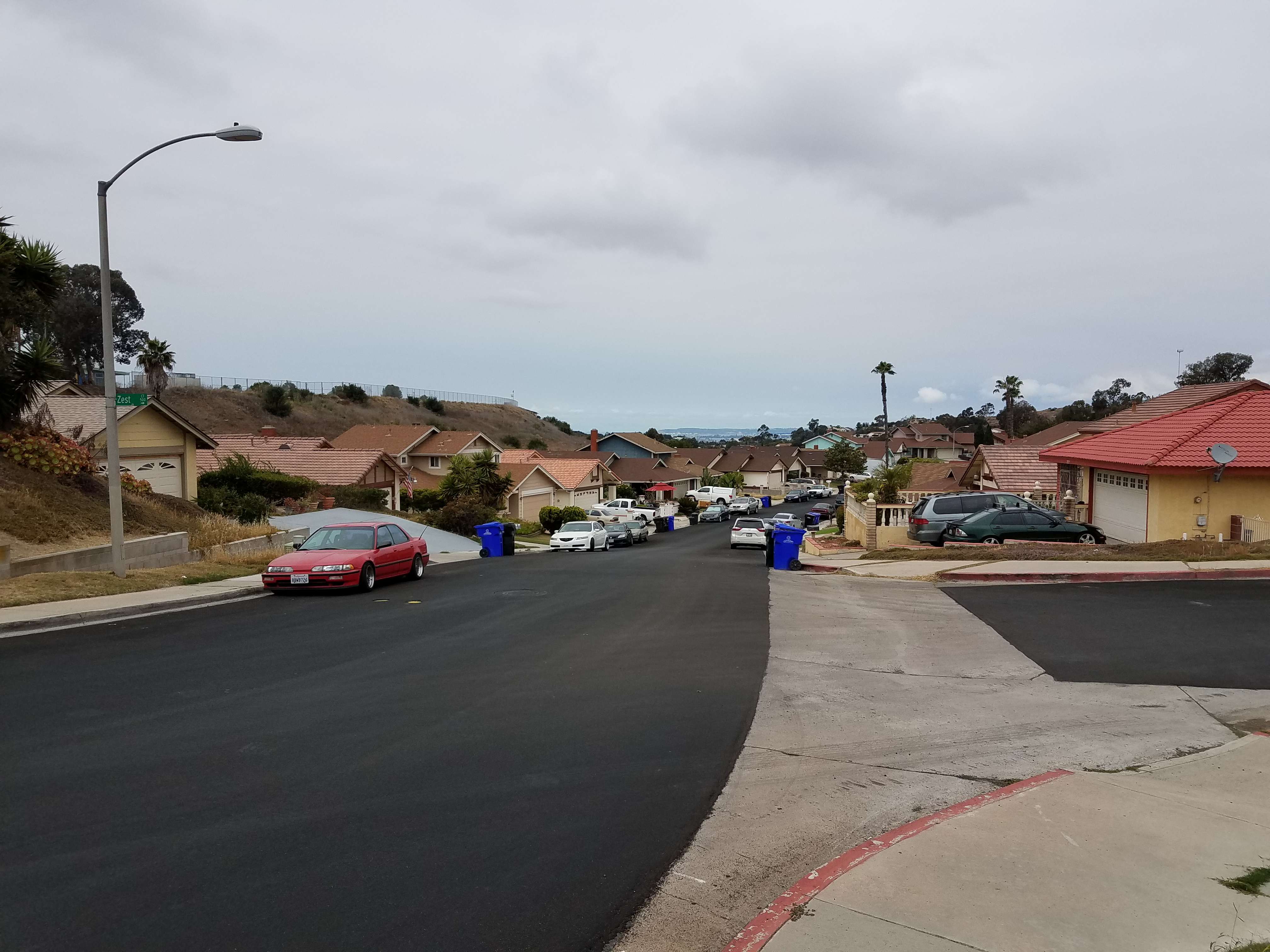 Zest Street in Paradise Hills, San Diego looking west with Point Loma in the distance.